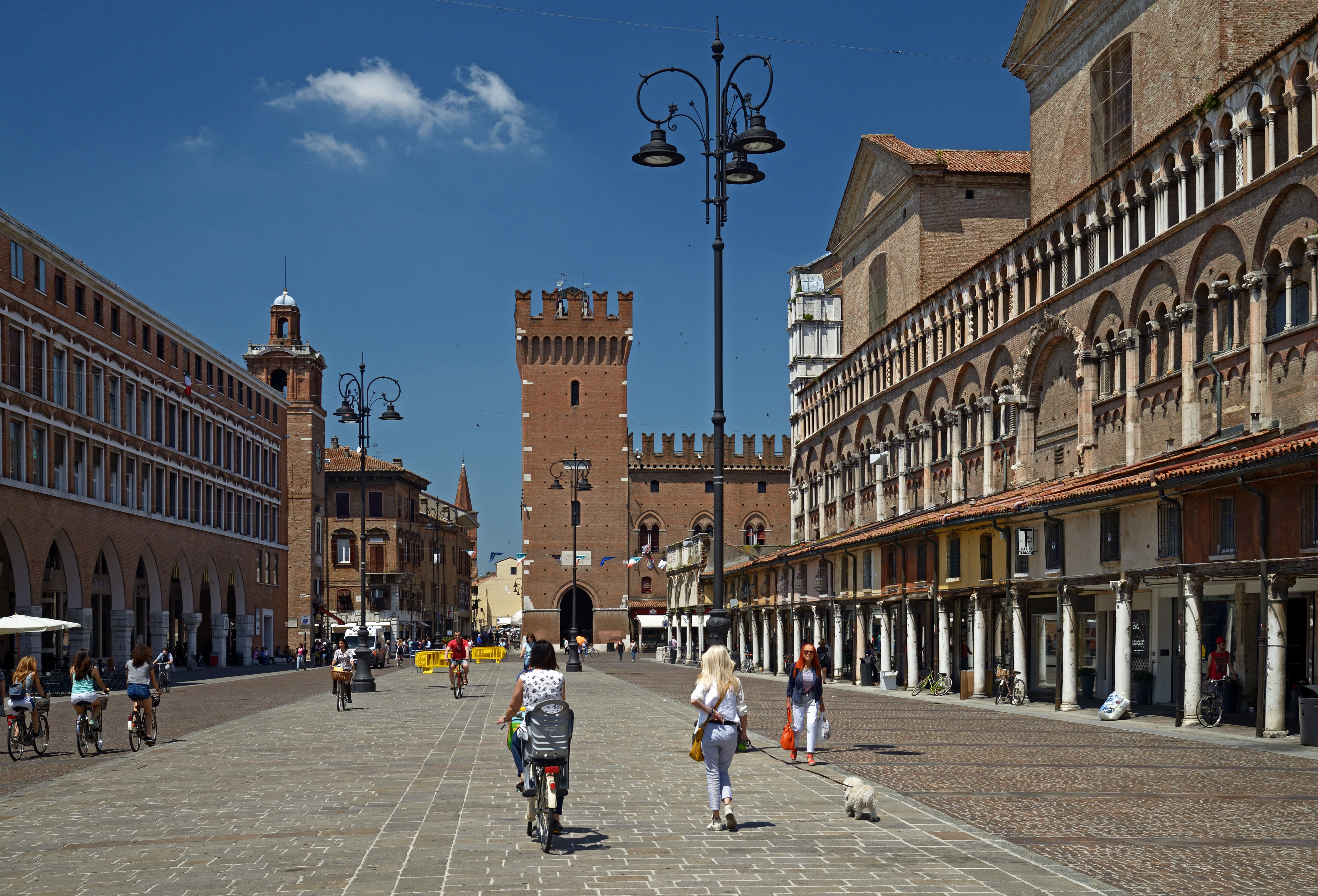 Piazza Trento e Trieste - Ex Palazzo della Ragione, Torre Della Vittoria and Cathedral of Ferrara. Ferrara, Italy